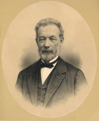 Adolph Steen (1816-1886), Danish mathematician and politician, MP